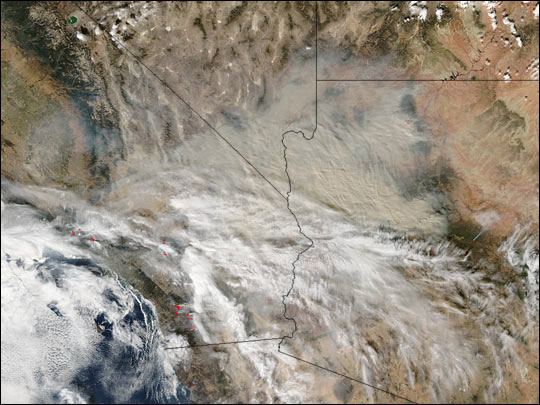 Photo of California wildfires from space, after the winds shifted toward Arizona and Nevada on October 29, 2003. Photo credit: NASA